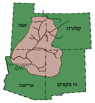 Own after File:Colorado Plateaus map.png.